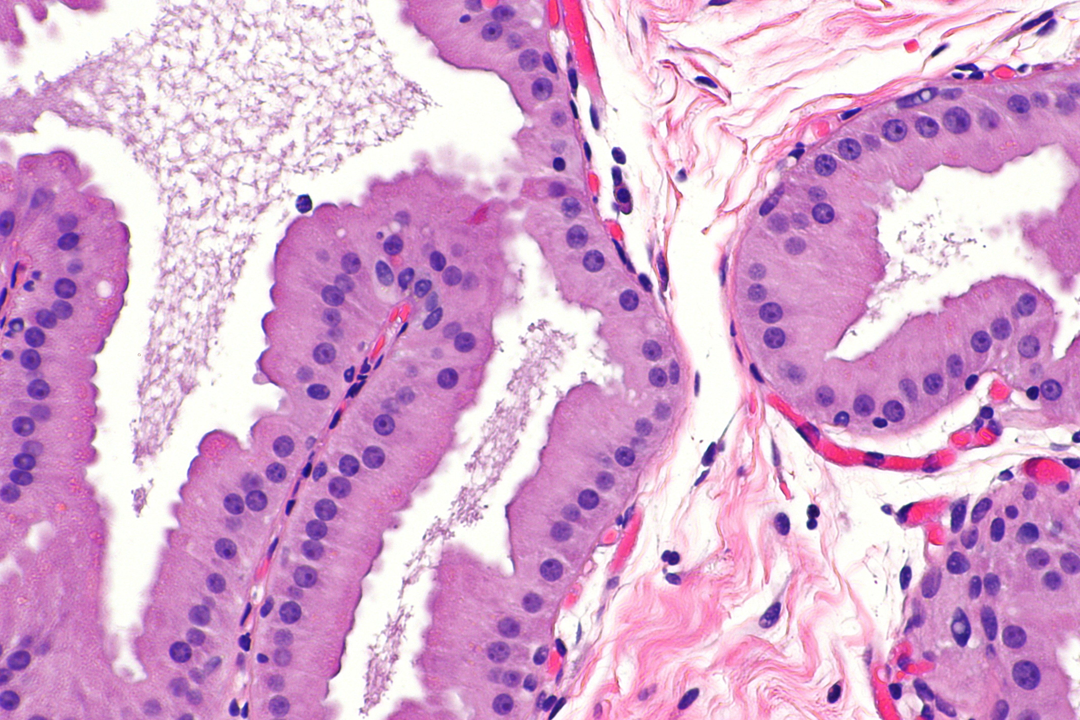 Micrograph showing apocrine metaplasia of the breast. Apocrine metaplasia (abbreviated AM) is a benign change. Related images AM - low mag. AM - intermed. mag. AM - high mag. AM - very high mag. AM - very high mag.